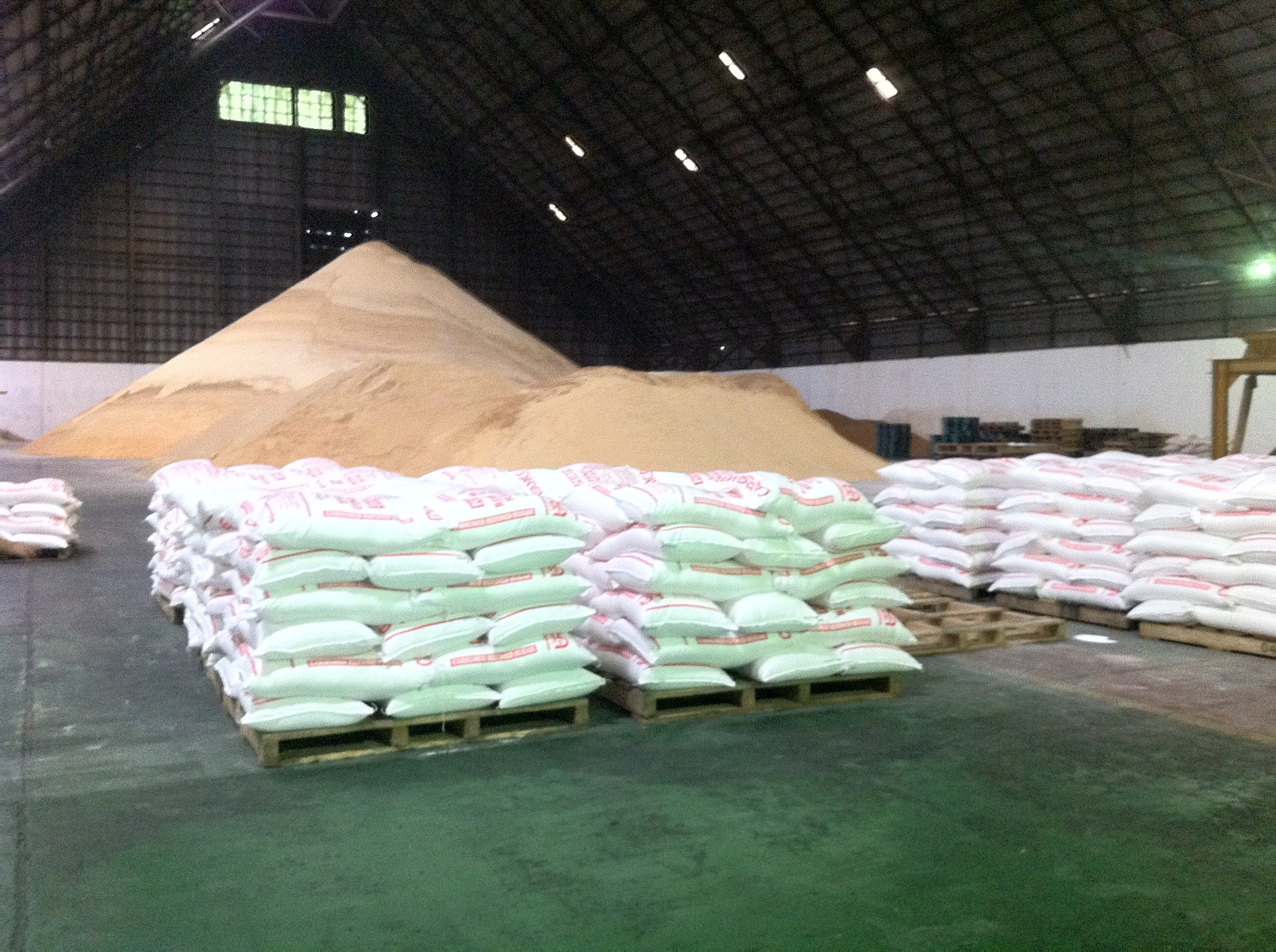 sacks of raw sugar in the Philippines